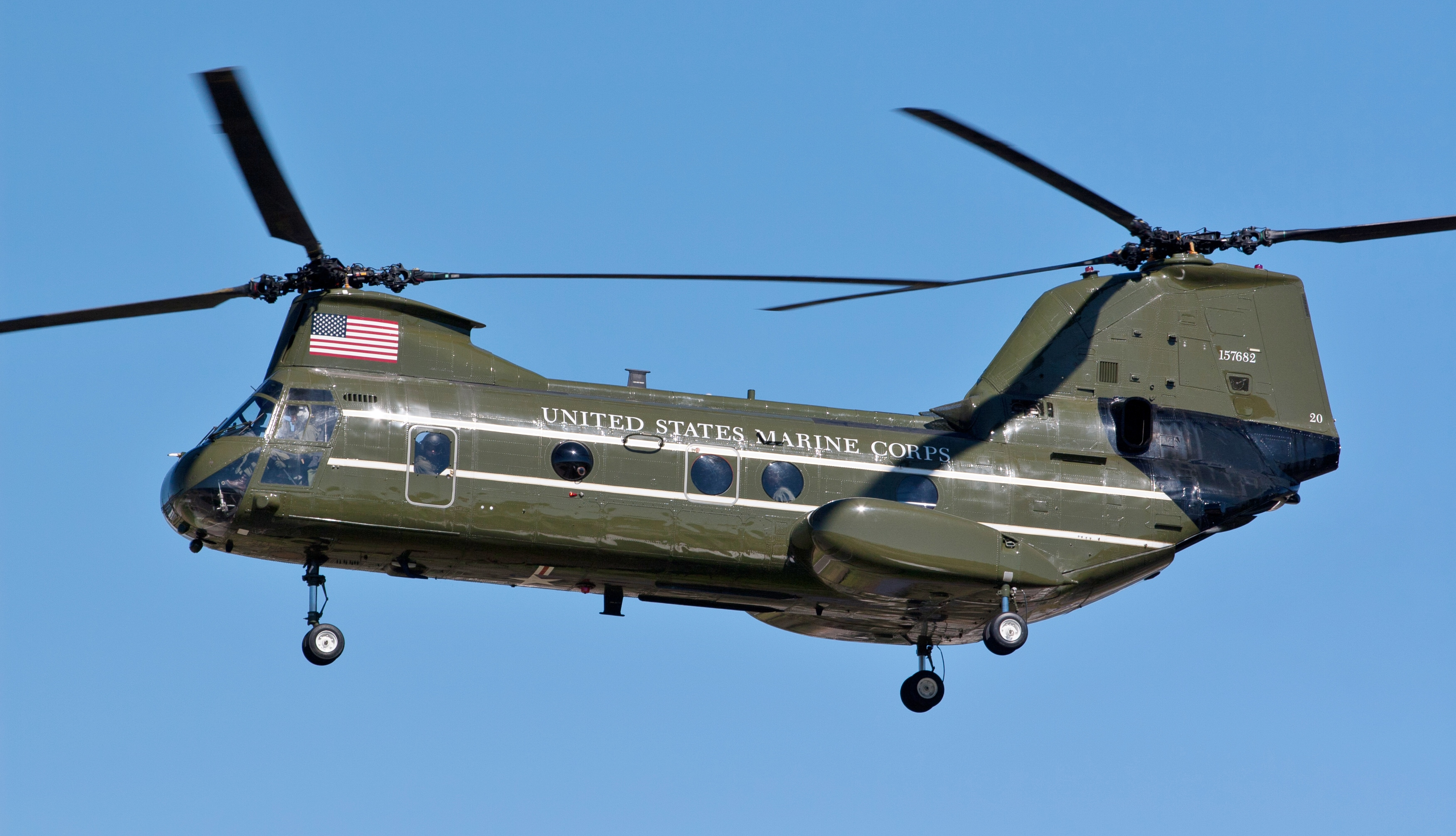 HMX-1 - Sea Knights - CH-46